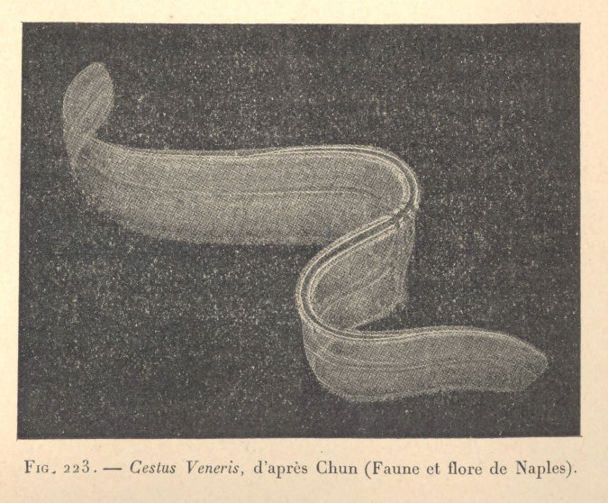 Cestus Veneris, d'apres Chun (Faune et flore de Naples) Subject: Ctenophora Tag: Invertebrates